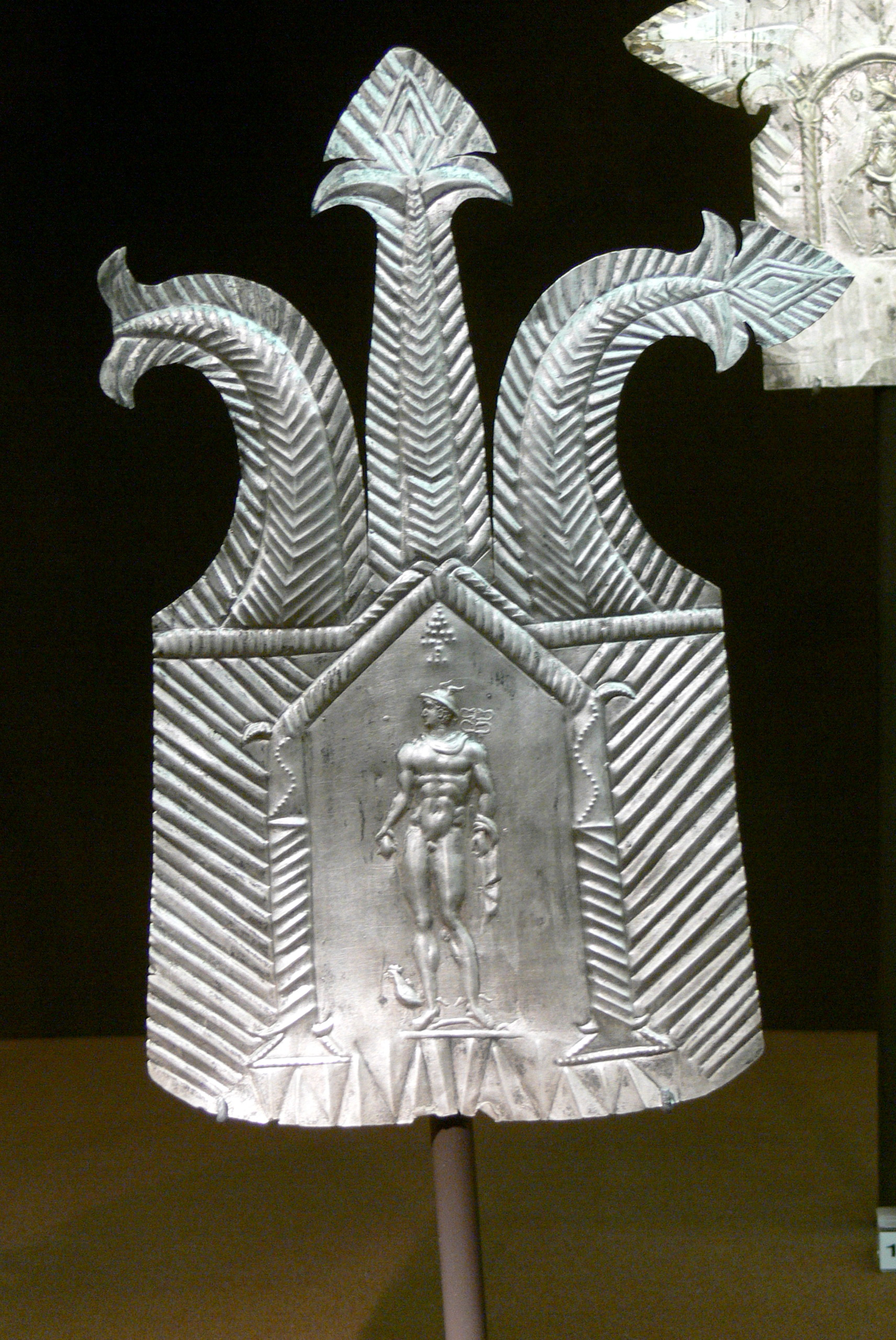 Weißenburg ( Bavaria ). Roman Museum: Silver votive plaque for Mercurius ( 2nd/3rd century AD ).